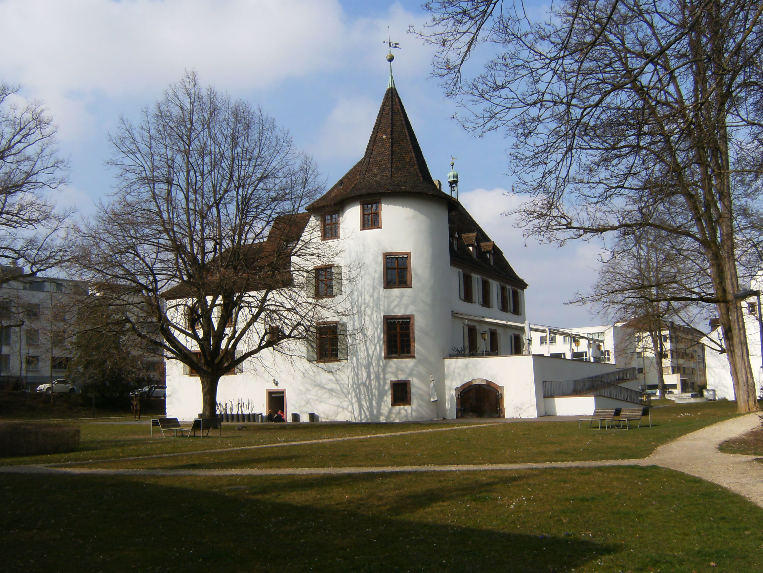 Schlosspark, Binningen BL